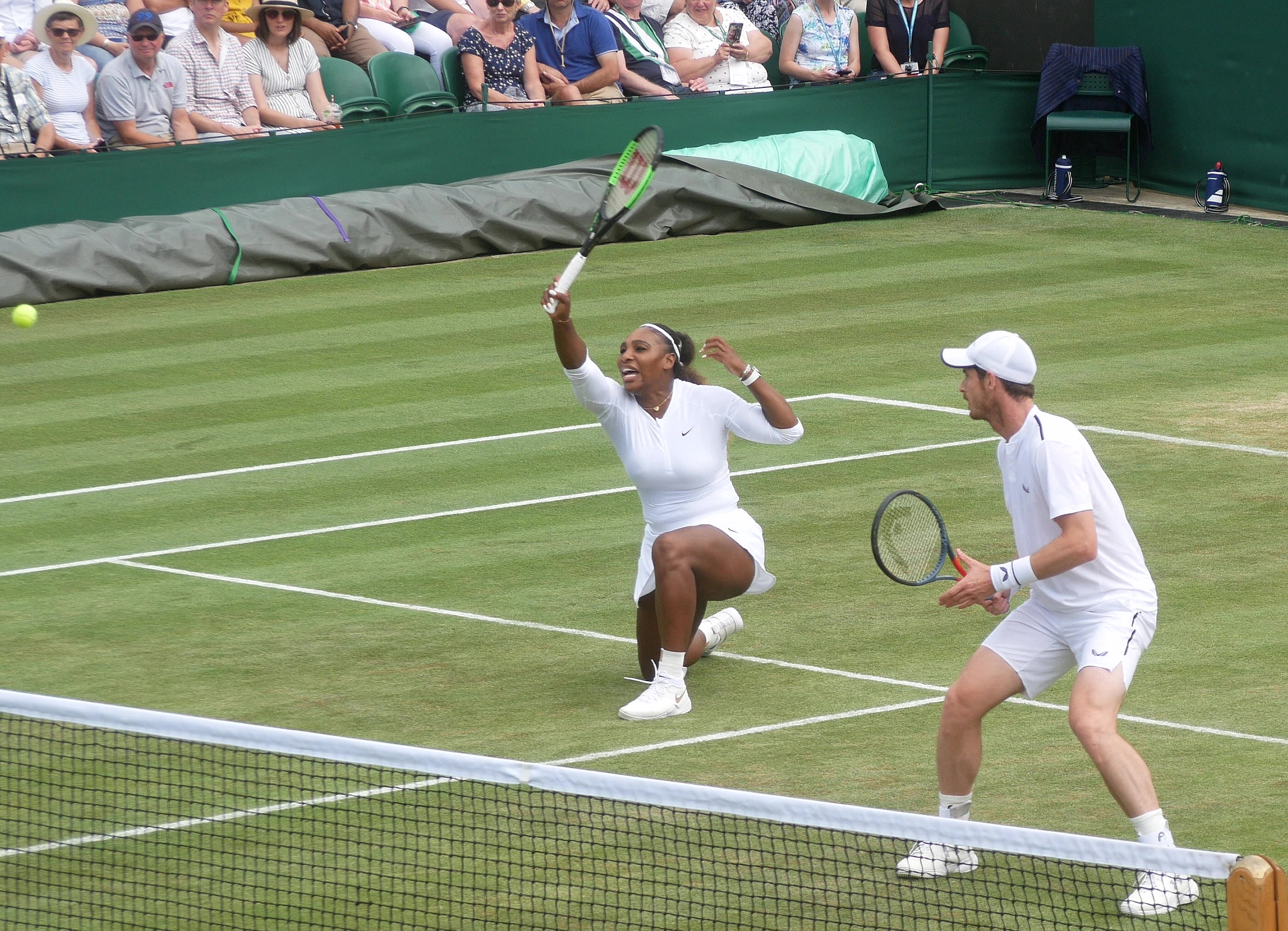 Andy Murray and Serena Williams play mixed doubles at Wimbledon July 2019